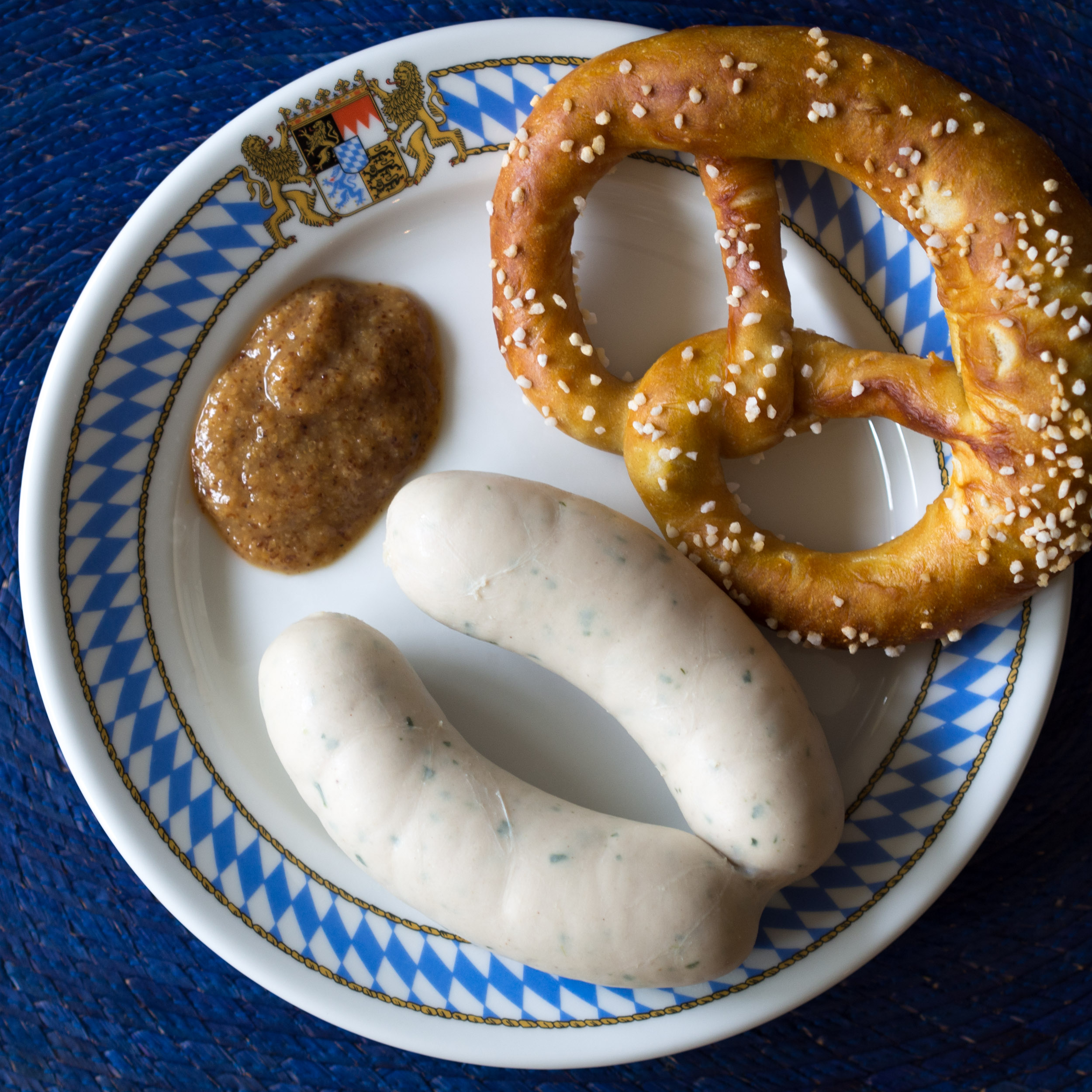 "Weißwurst", "Brezn" und "Süßer Senf" on a plate with the Bavarian coat of arms.